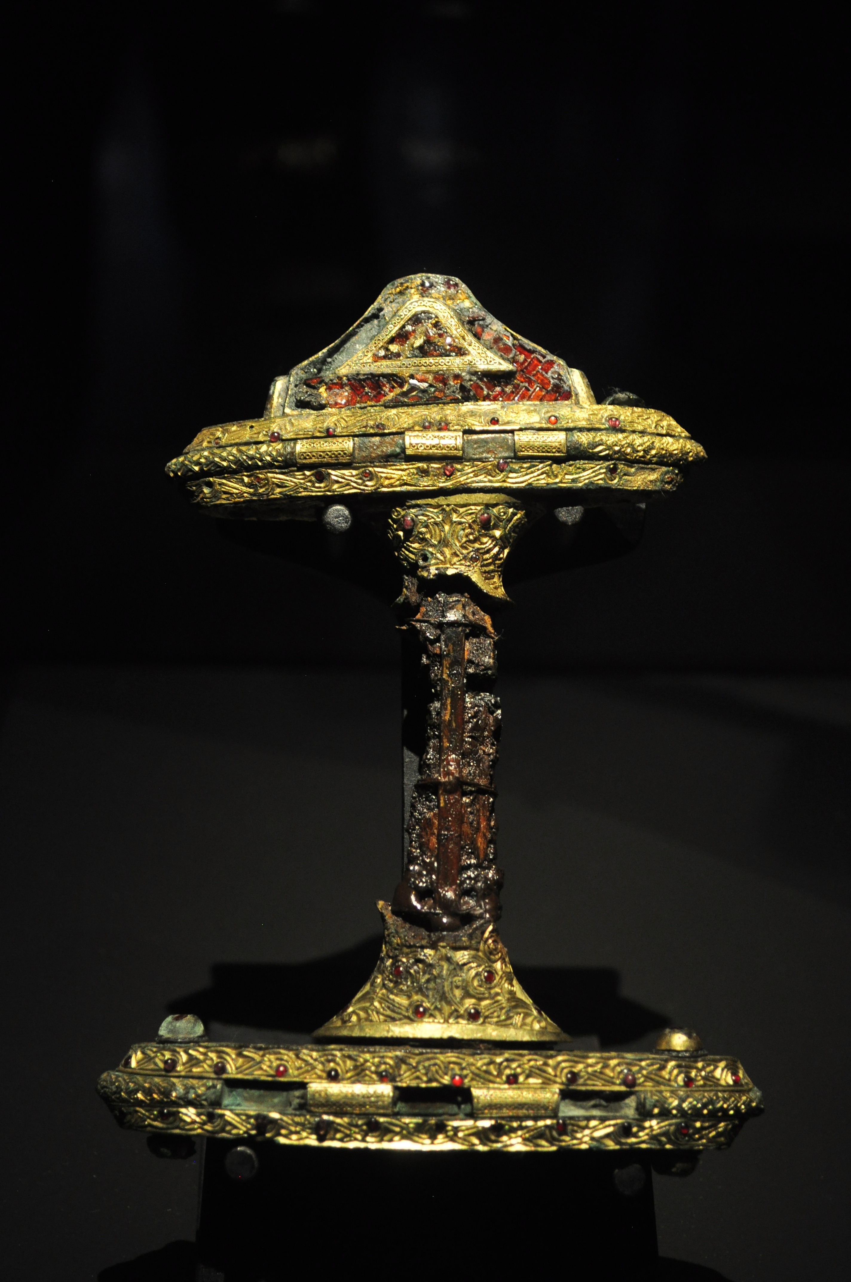 Hilt of warrior sword, 7th century, "The Vikings Begin" exhibit, Nordic Museum, Seattle, Washington, U.S. Swords were described as coming from "Valsgärde boat graves 5 & 7", no indication which of the two graves was the source of exactly which of the objects displayed.